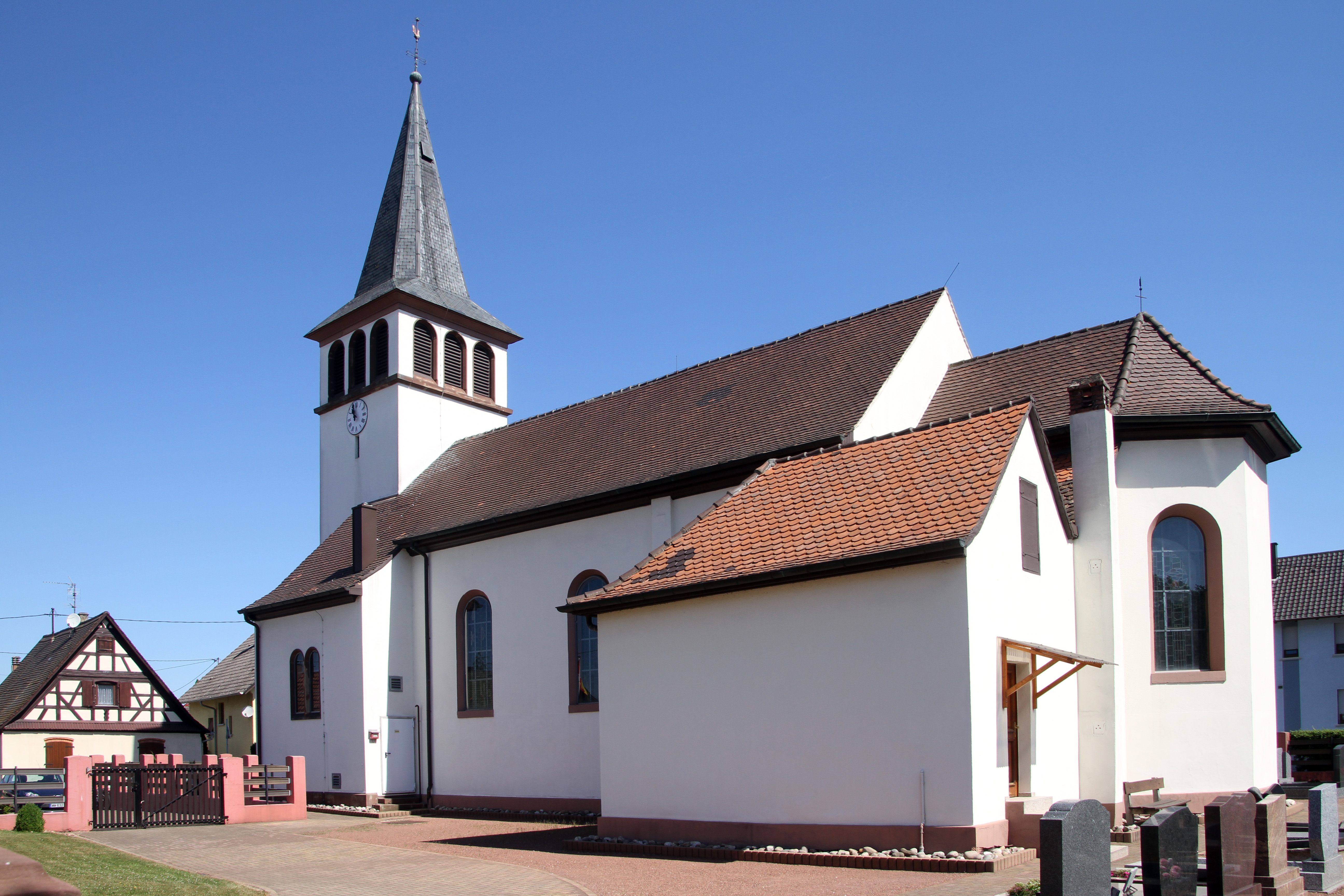 Church of Notre-Dame de la Nativité in Kesseldorf.